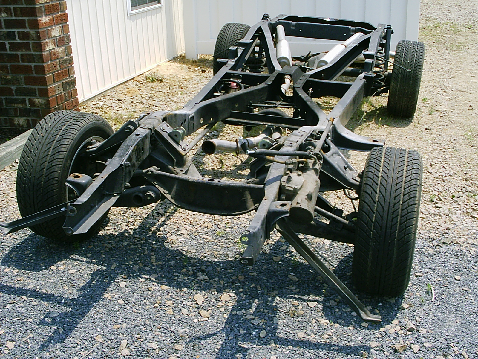 Motor vehicle chassis together with the automobile's suspension, tires, and steering box, as well as part of the exhaust system